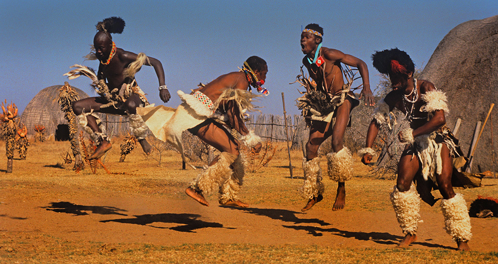 Many African dances involve jumping including ritual dances of the Zulu. In the background are the typical traditional Zulu huts and vegitation (aloes) of the higher regions of Kwazulu Natal, South Africa.